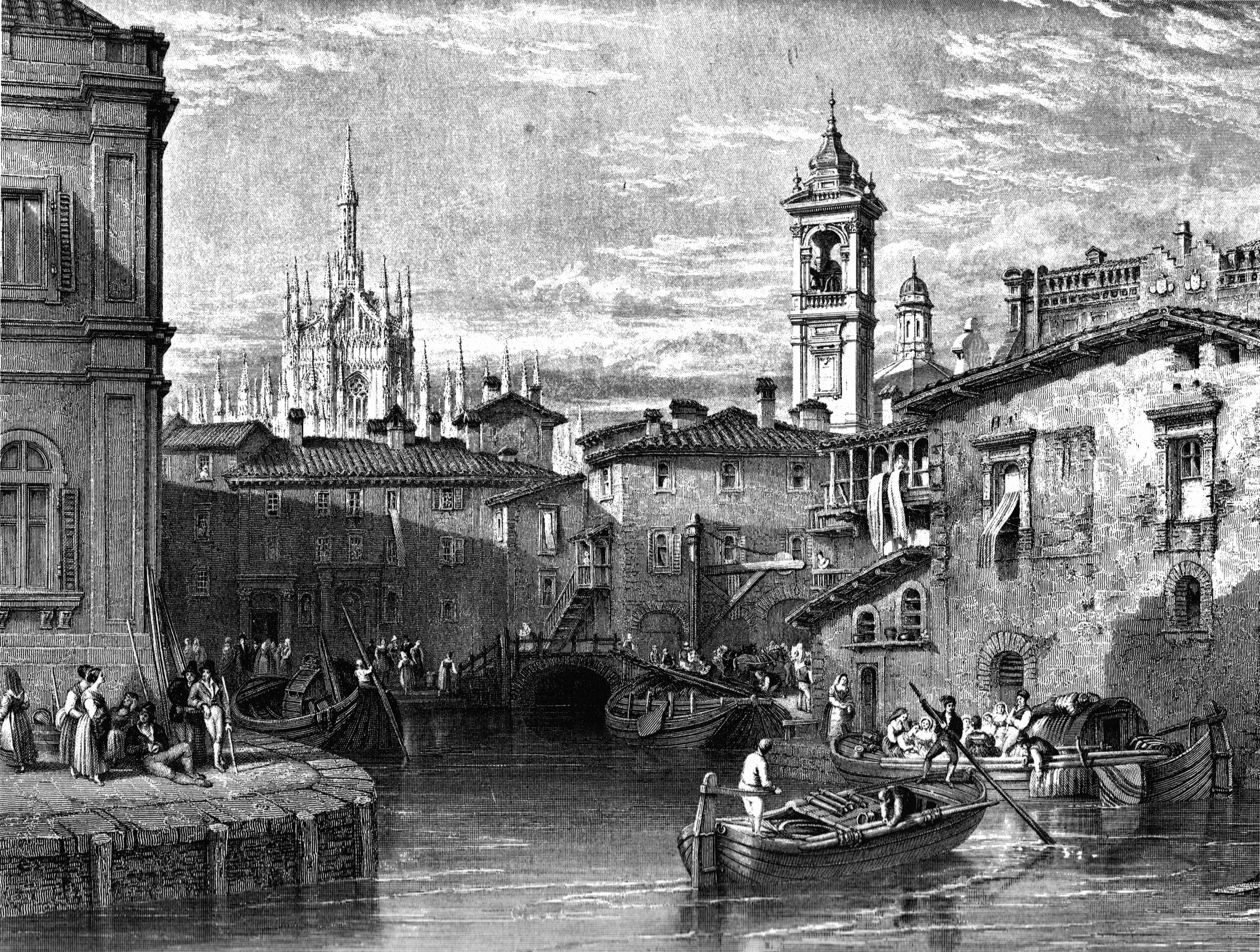 Boat scene at Milan, around 1845. Drawing by W. Leitch, engraving by T. Higham.